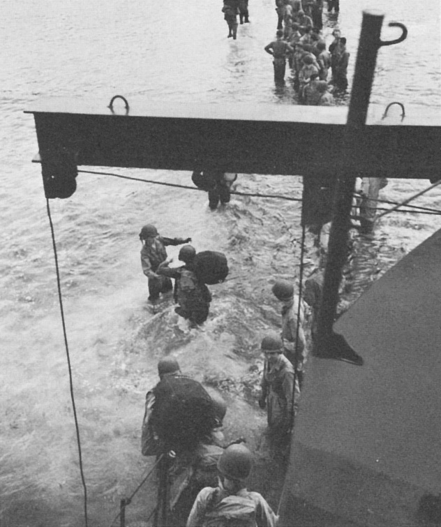 American troops disembarking from a LCI in their way to Kiriwina Island during Operation Chronicle.